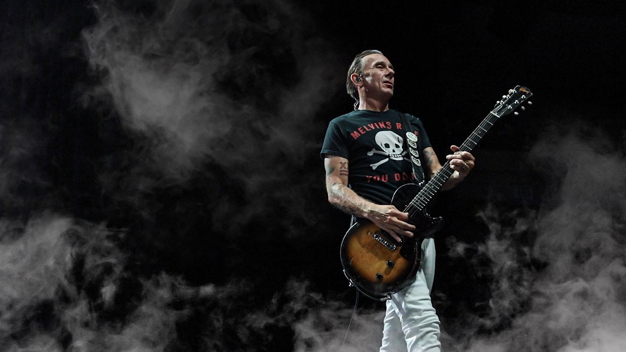 Brian Baker, guitar player, Bad Religion